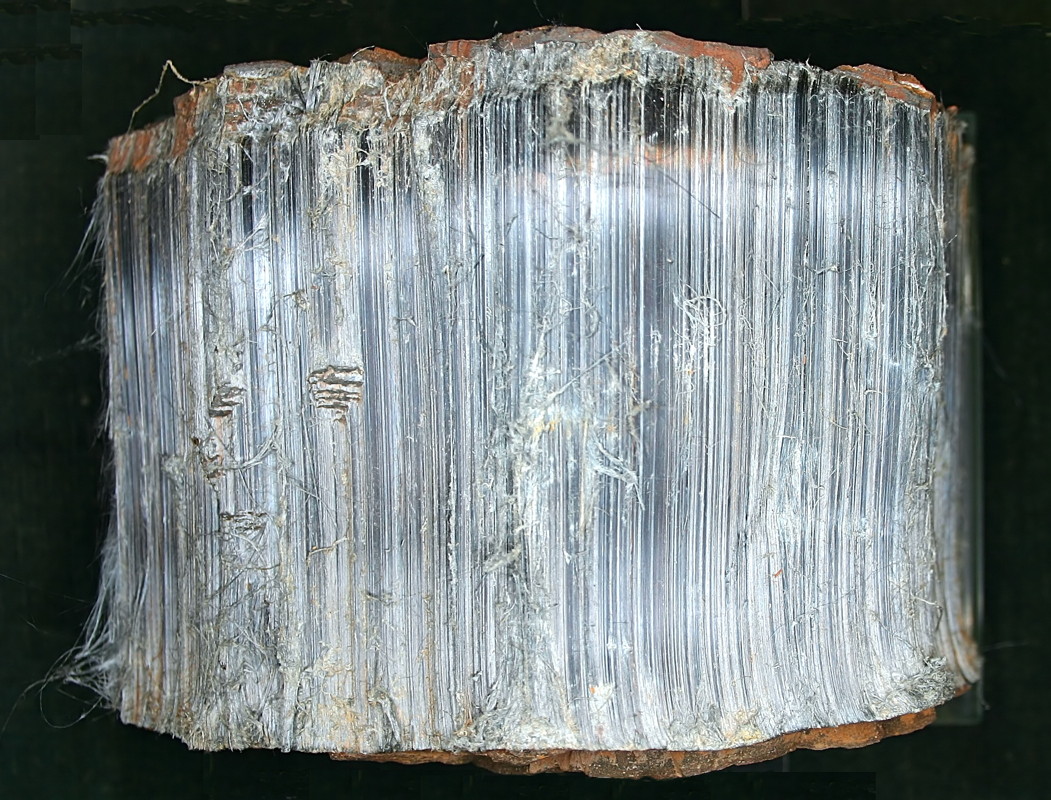 Crocidolite (blue asbestos), variety of Riebeckite - Locality: Pomfret Mine, Vryburg - Exposed in the Mineralogical Museum, Bonn, Germany